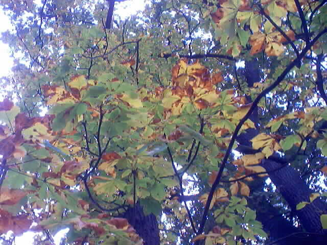 Damage to horse chestnut by leaf miner, in Germany.